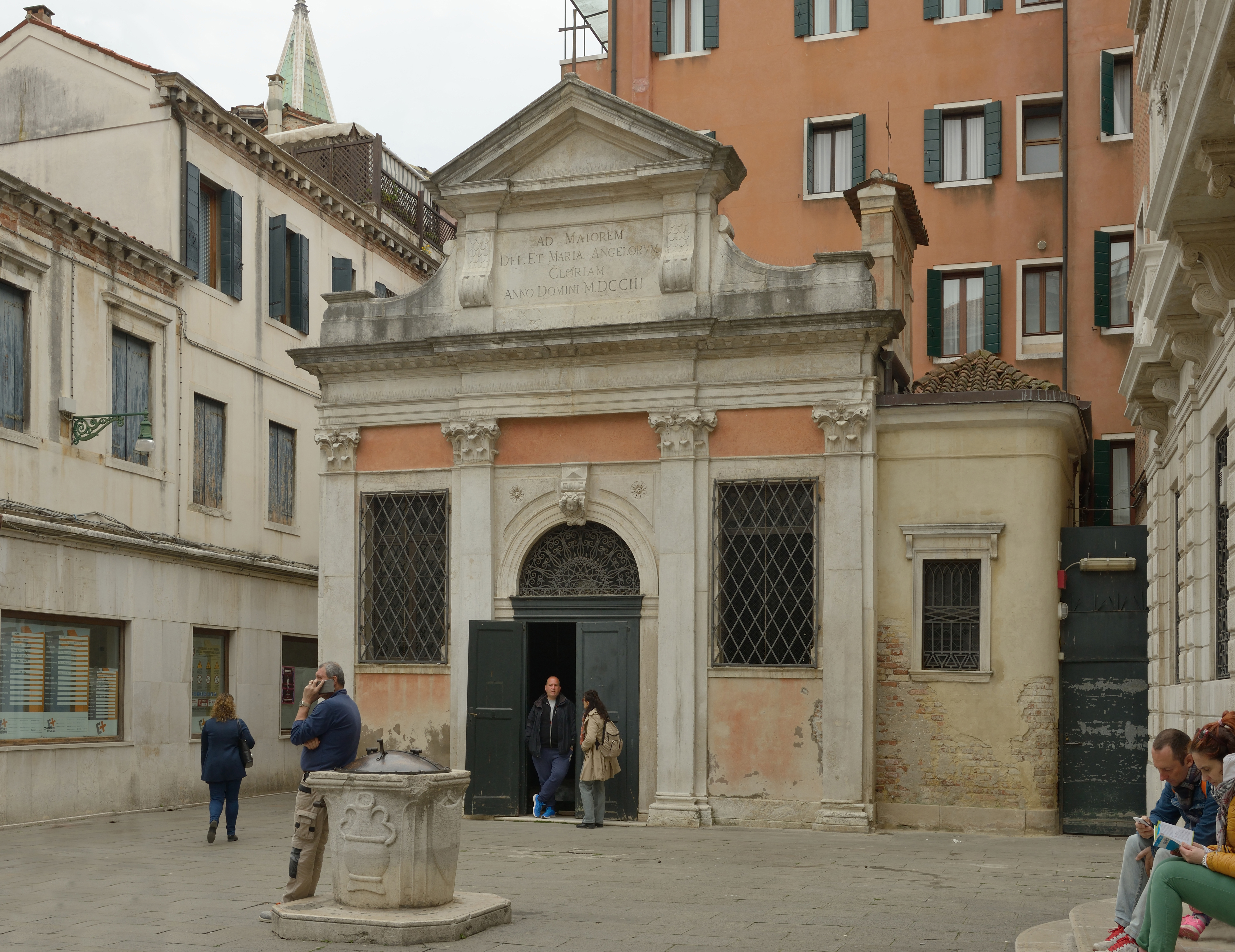 San Gallo church in Venice.